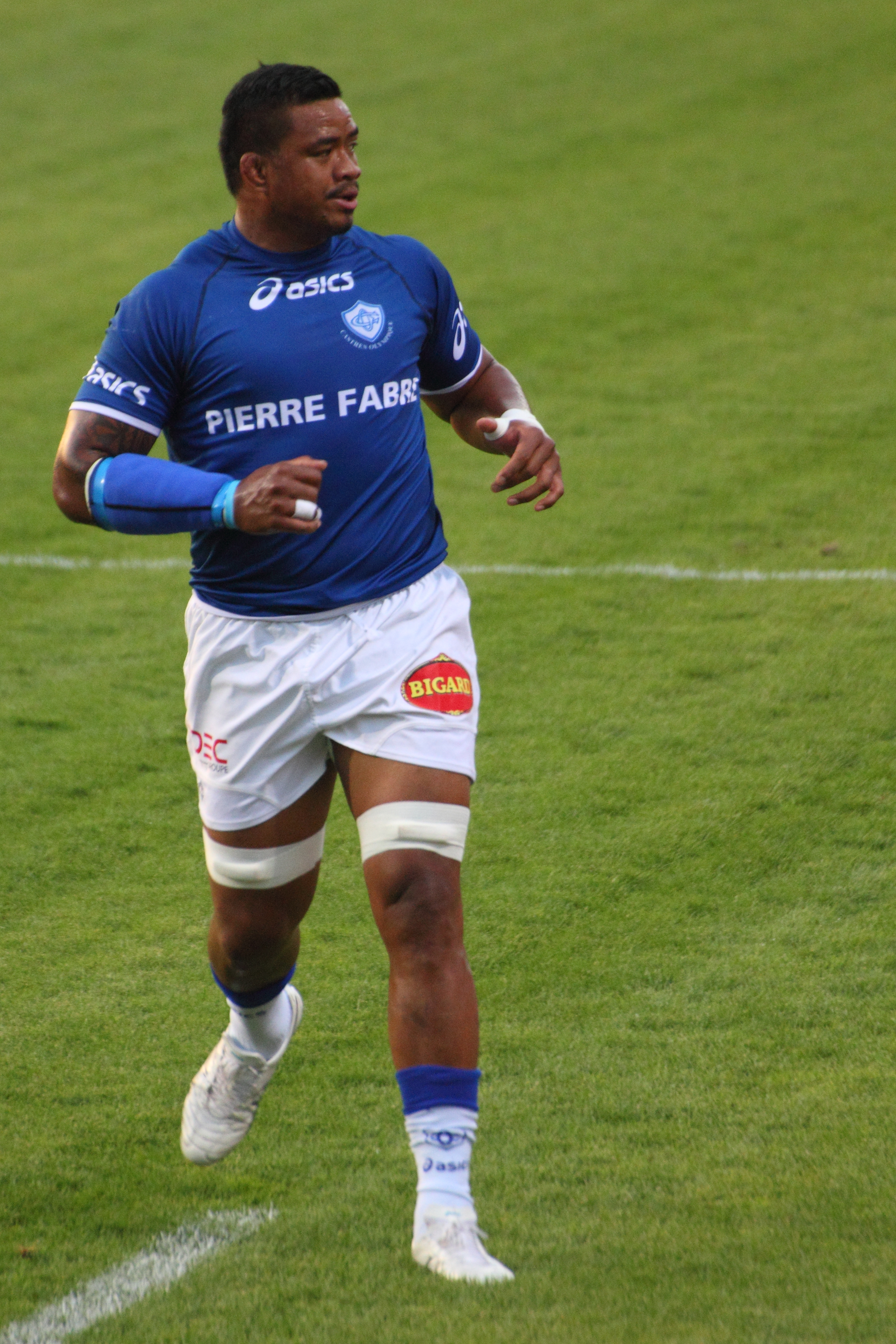 Top 14 — 17 August 2012, Stade Ernest-Wallon. Match between: Stade toulousain — Castres olympique